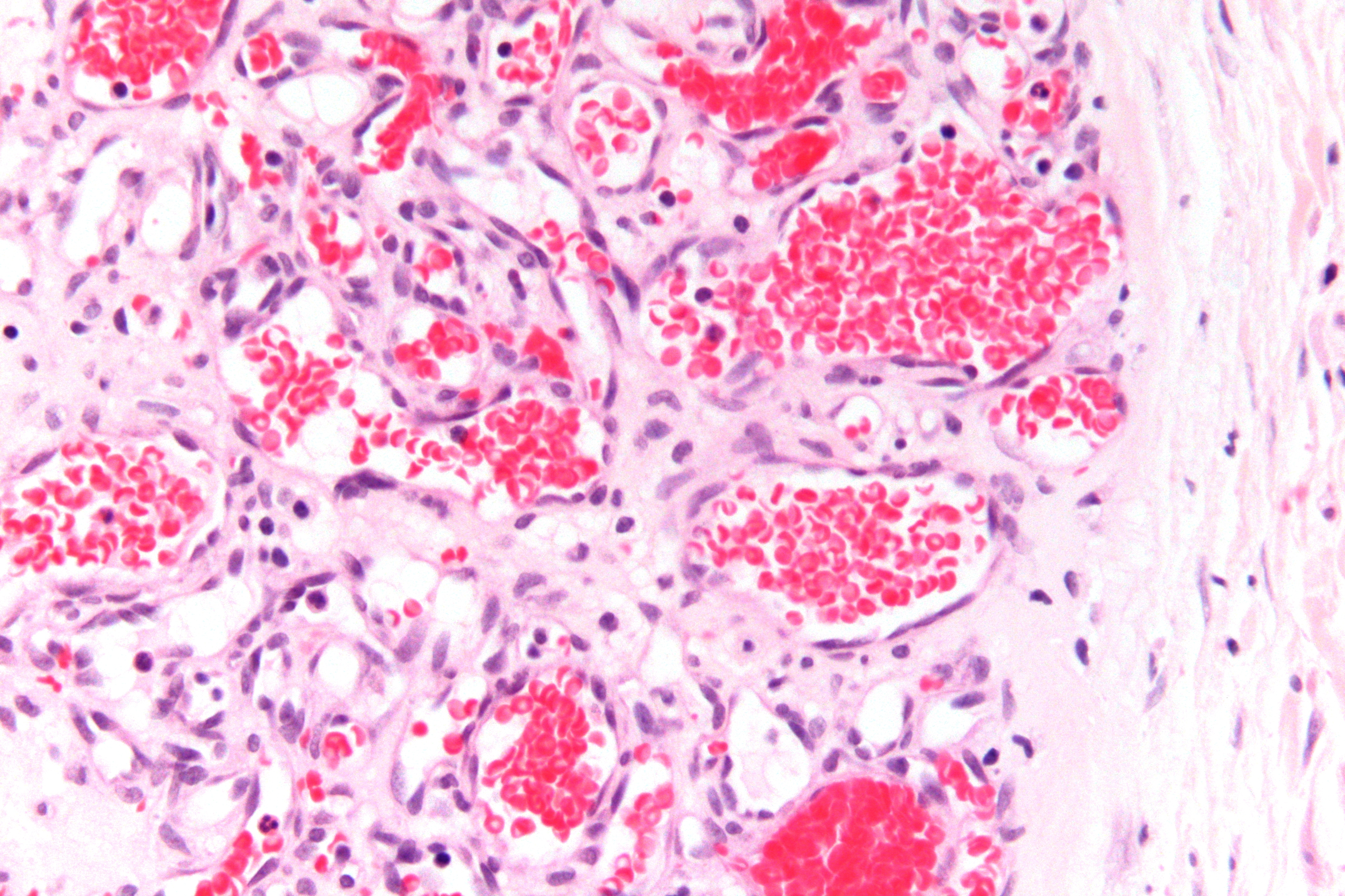 Very high magnification micrograph of a capillary hemangioma. H&E stain. Related images Intermed. mag. High mag. Very high mag.